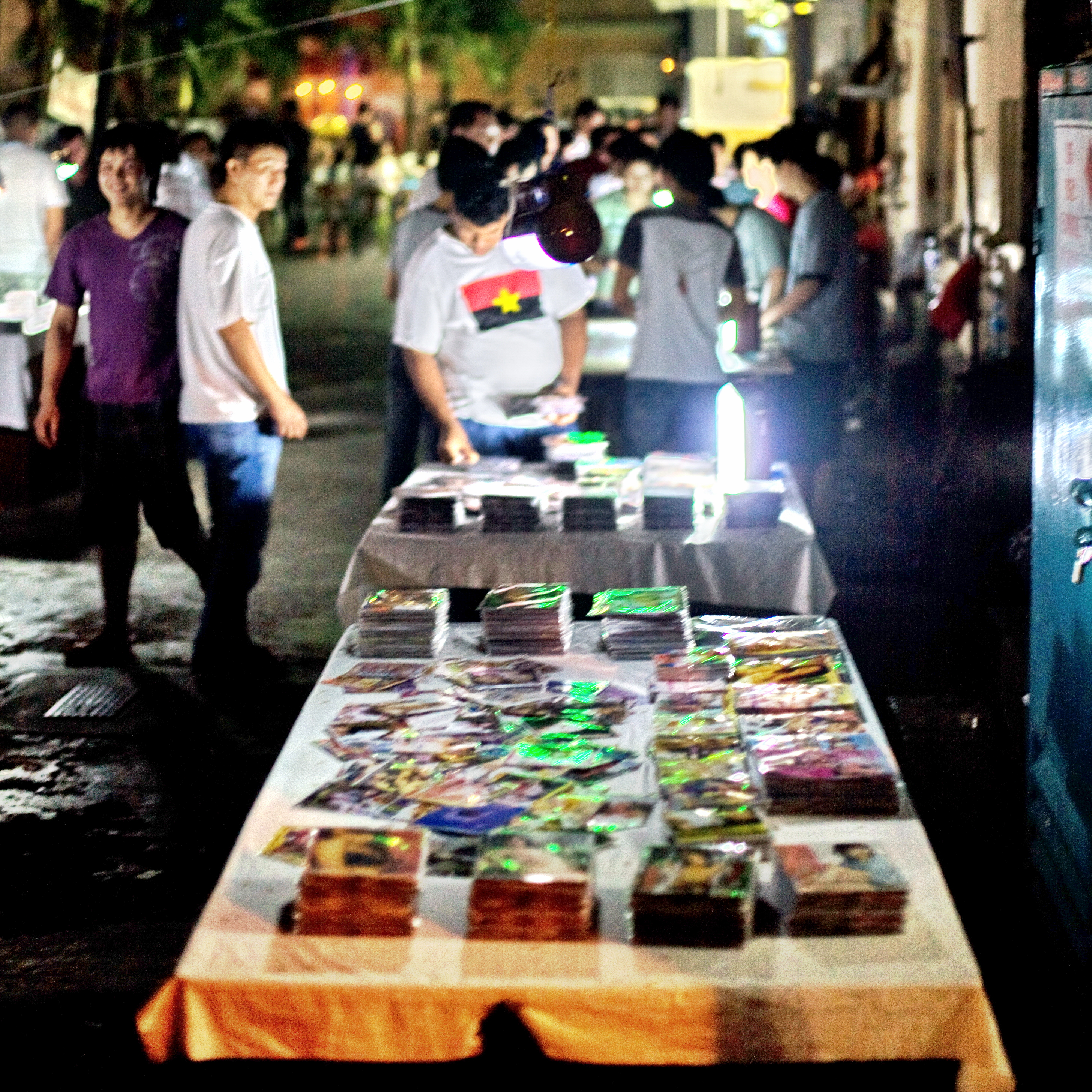 Pirated films being sold in the Red Light District, Singapore